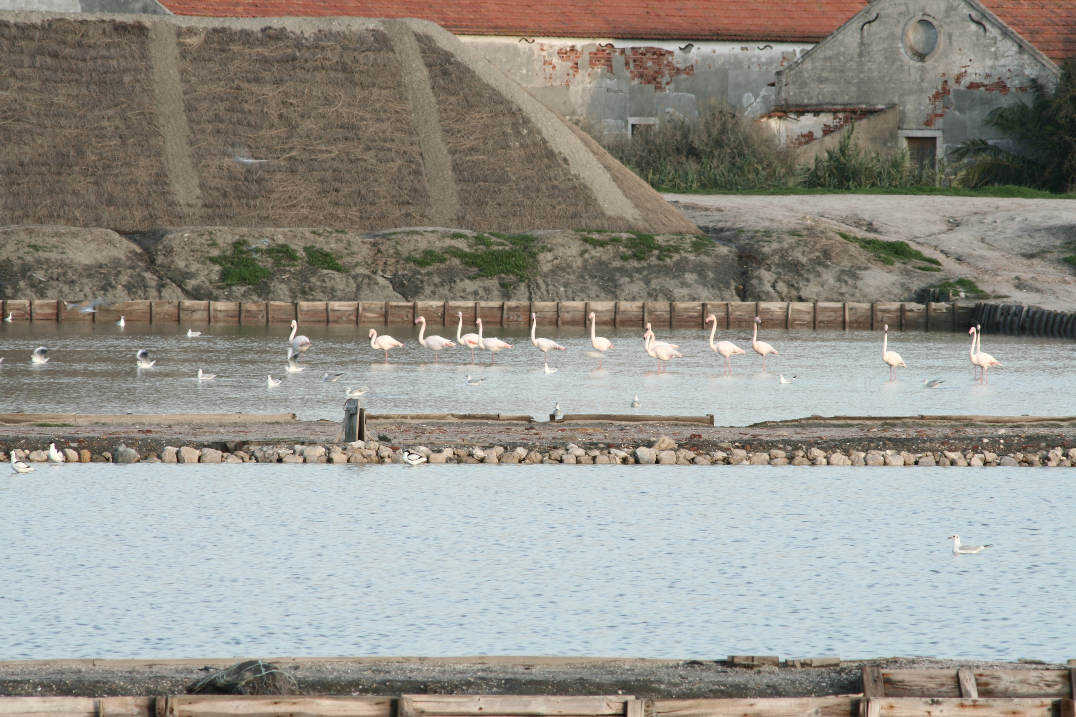 Every pink flamingo is looking to the left... why? Taken in the Samouco Salinas in Portugal.